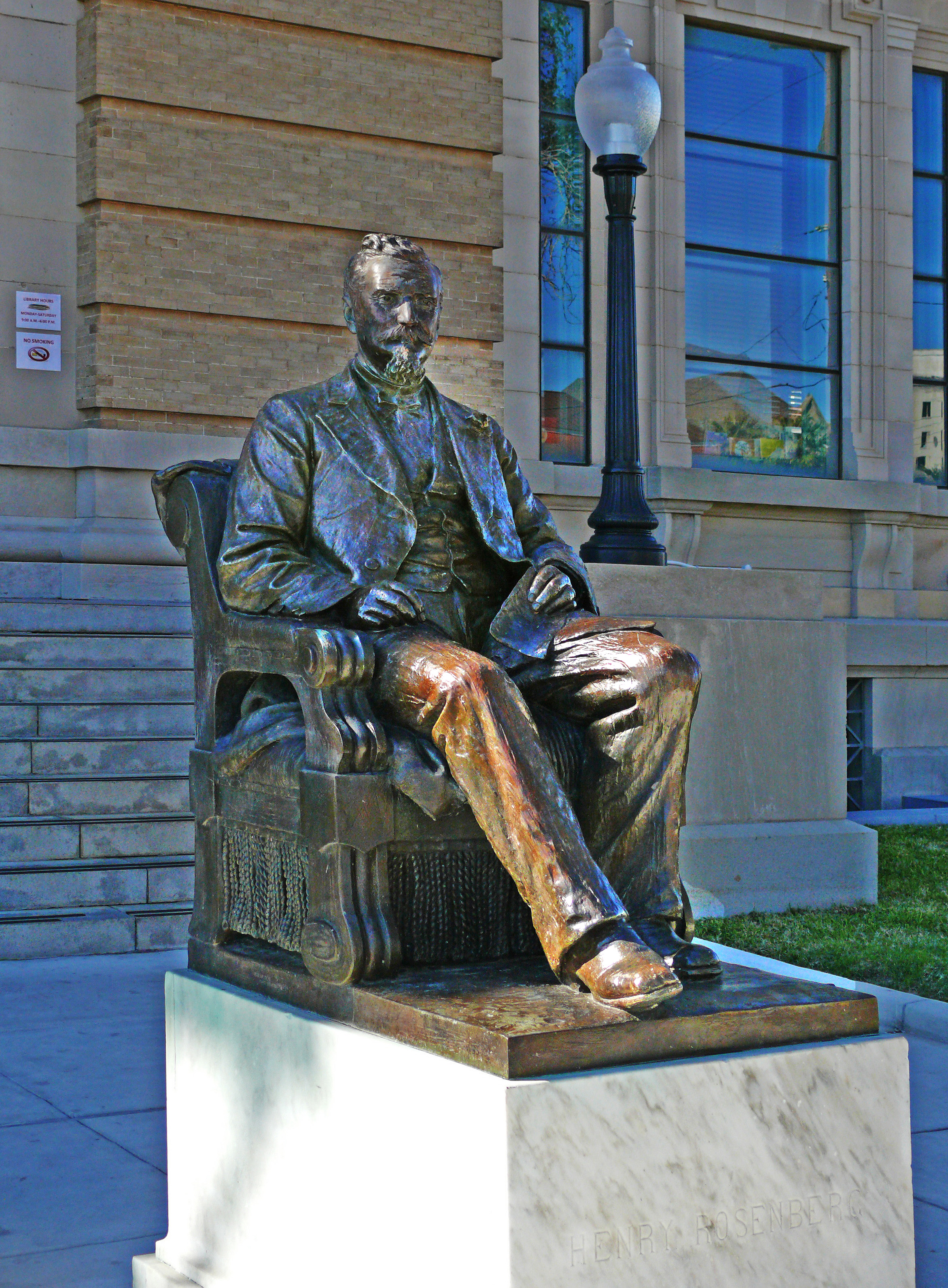 Henry Rosenberg, Galveston business leader and philanthropist, was born in Bilten, Glarus Canton, Switzerland, on June 22, 1824, to Johann Rudolf and Waldburg (Blum) Rosenberg. He went to work in a textile factory, where he and John Hessly, the son of his employer, became friends. Rosenberg followed Hessly to Galveston, Texas. Rosenberg became a financier and investor and was active in banking, real estate, and transportation.